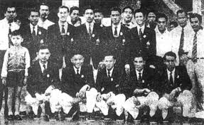 Thai team at the 1956 Olympics, Melbourne before its biggest defeat by the United Kingdom.